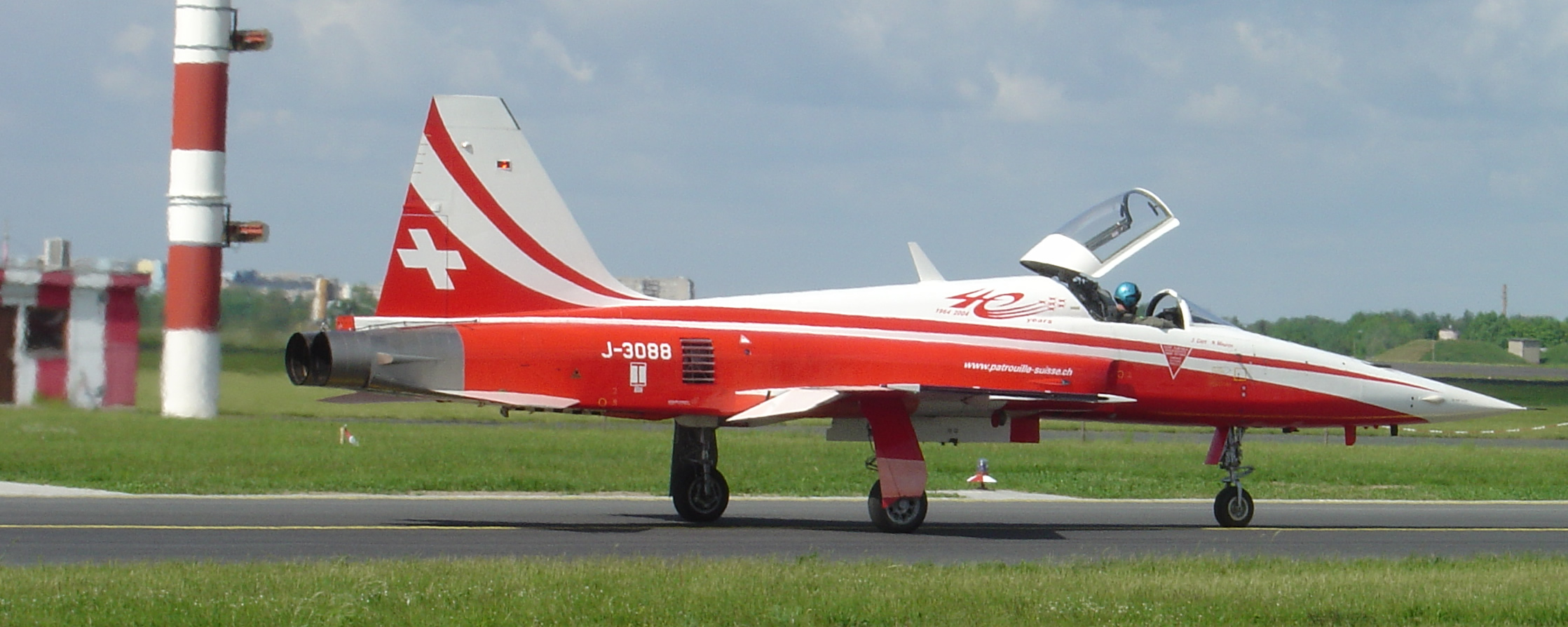 An aircraft of the Patrouille Suisse on the ILA 2004 in Berlin Schönefeld, showing a Northrop F-5 E Tiger II (J-3088)